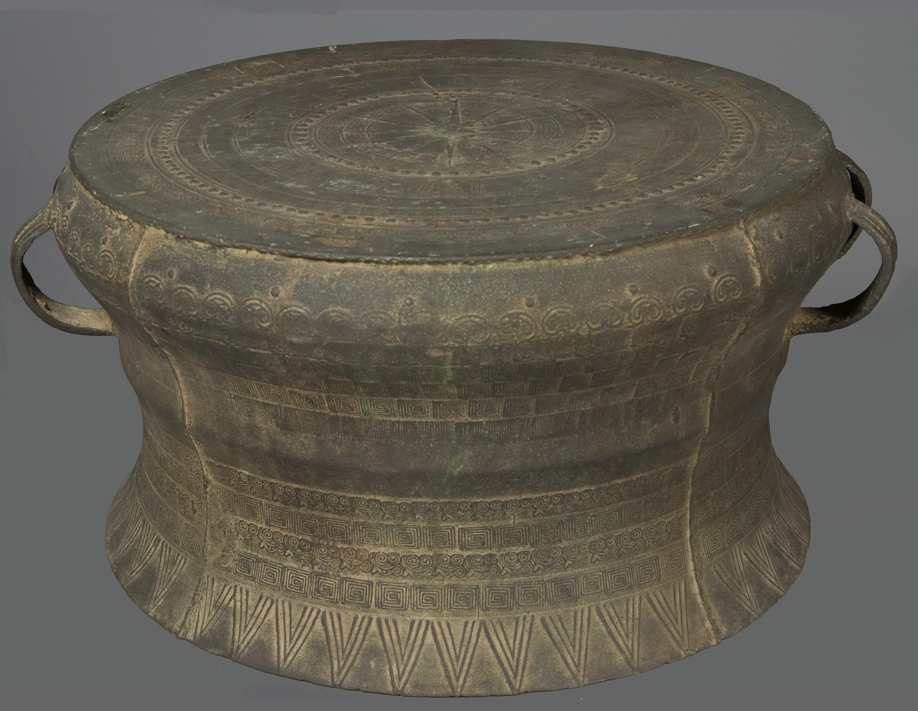 Chinese (possibly Yunnan Province); Tonggu; Idiophone-Struck-gong